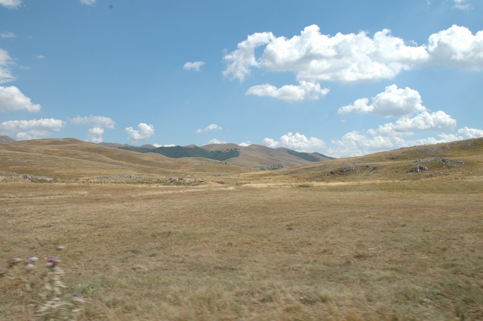 Morine plateau